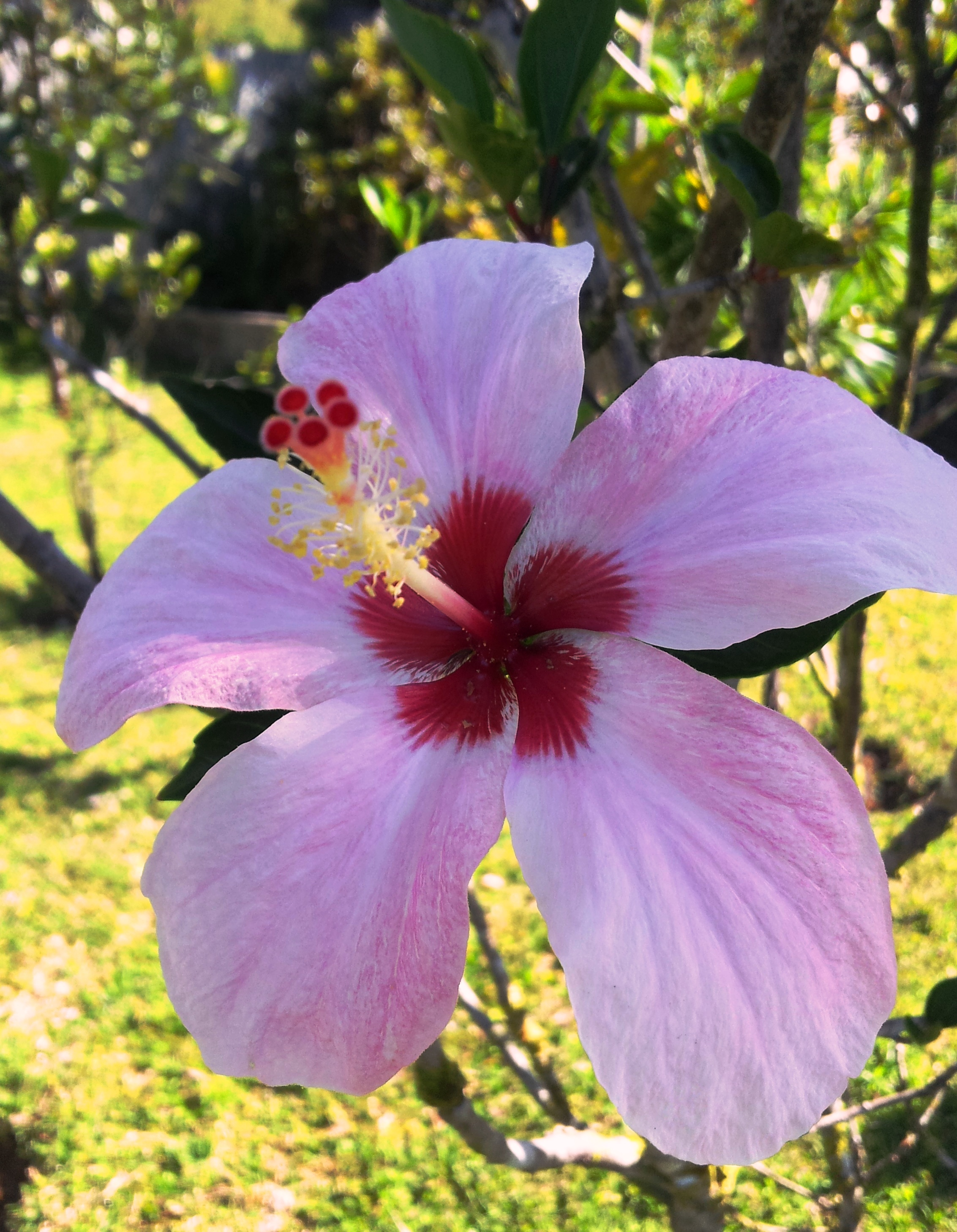 Hibiscus genevii - critically endangered endemic plant growing at Monvert Nature Park